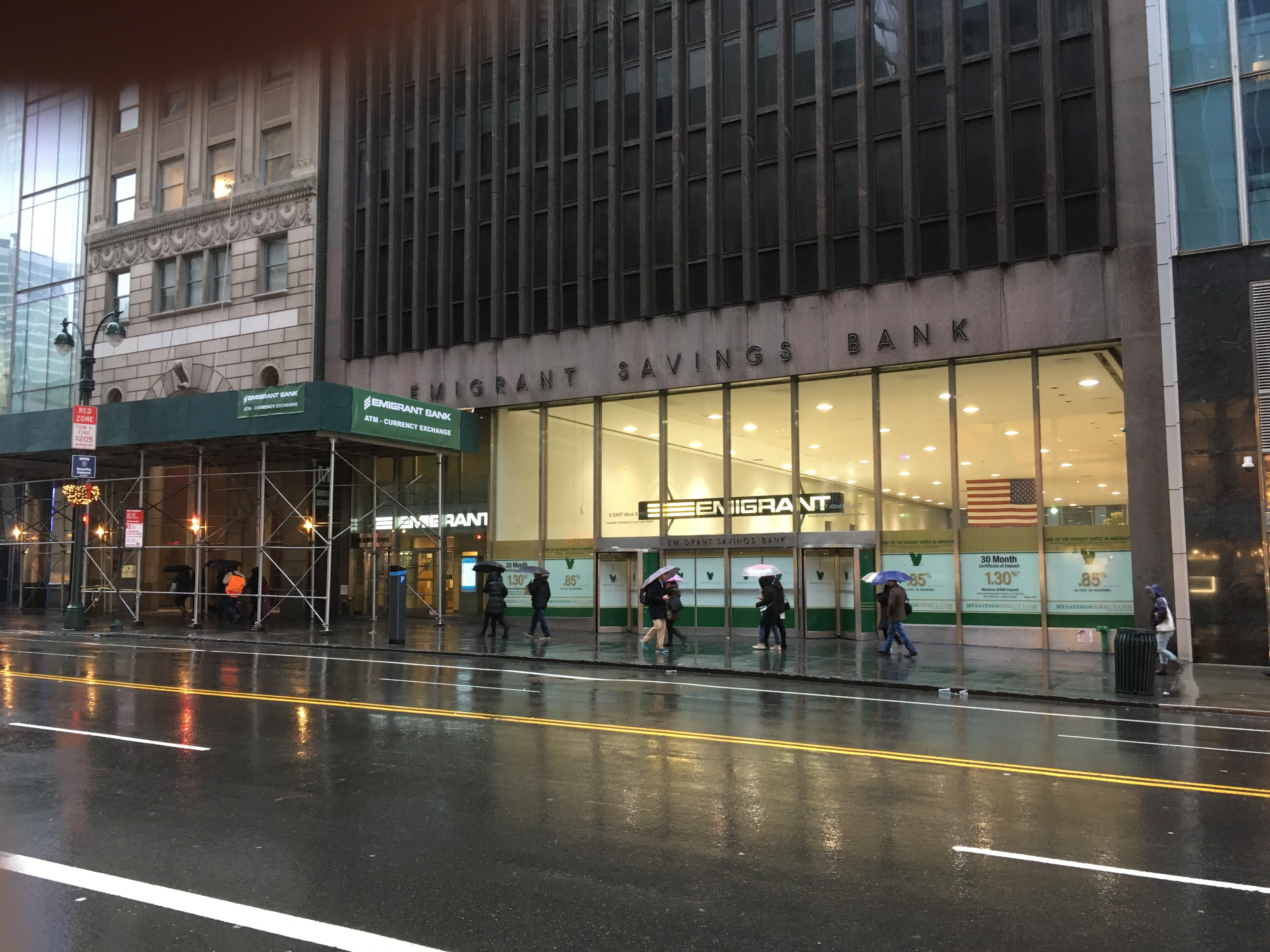 Emigrant savings bank in New York City, New York, USA